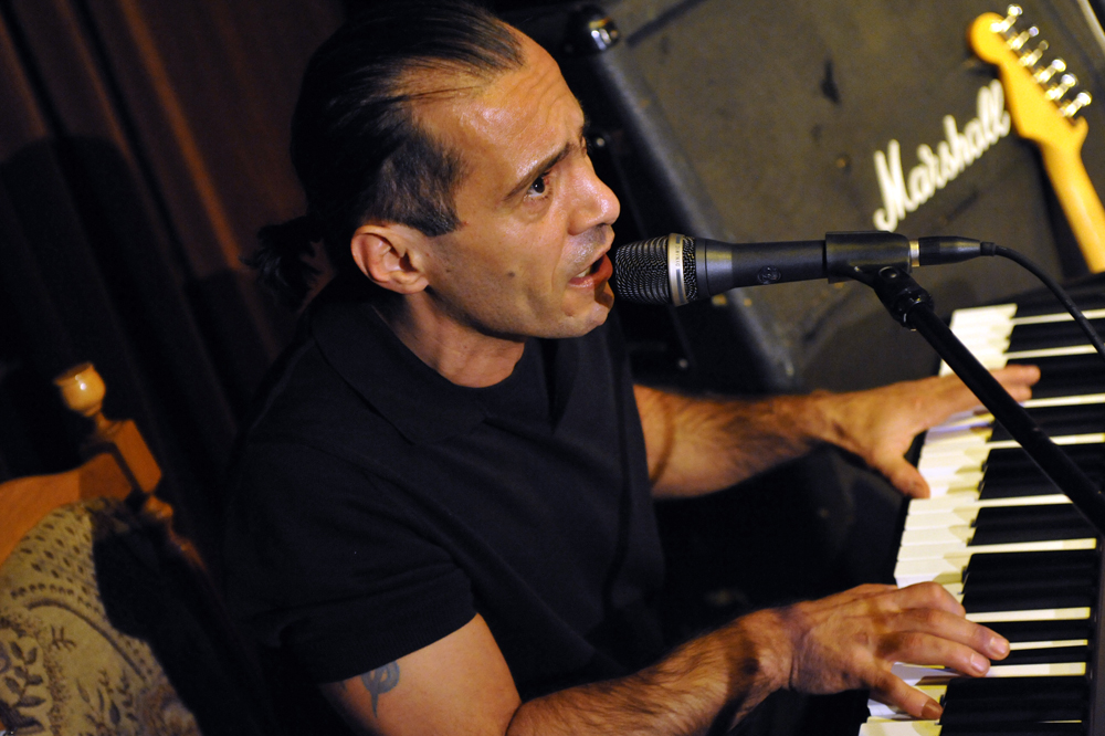 Kostek Joriadis playing with Greek Freaks in Warszawa in November 2010.